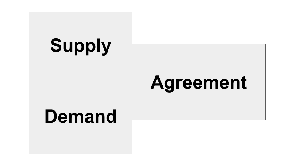 Supply and demand. The supplier and the demander come to an agreement, on things like price, quality, delivery time, etc.